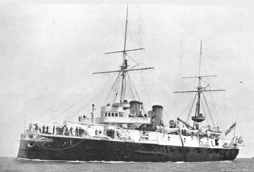 British cruiser HMS Australia of 1886.